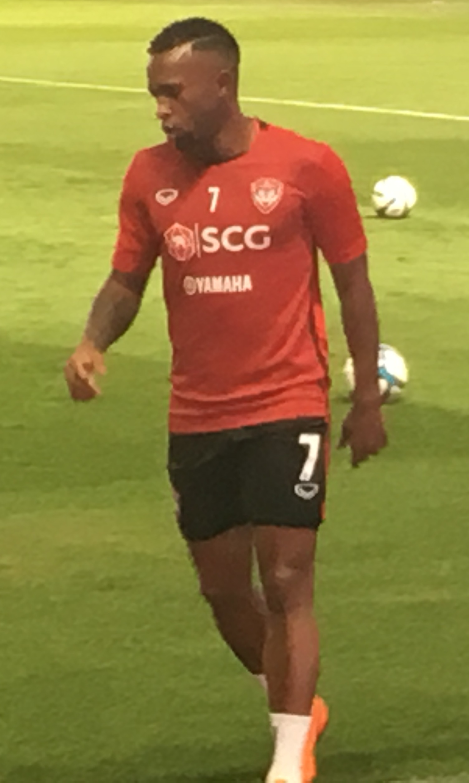 Heberty Fernandes training for Muangthong United before game with Buriram United.